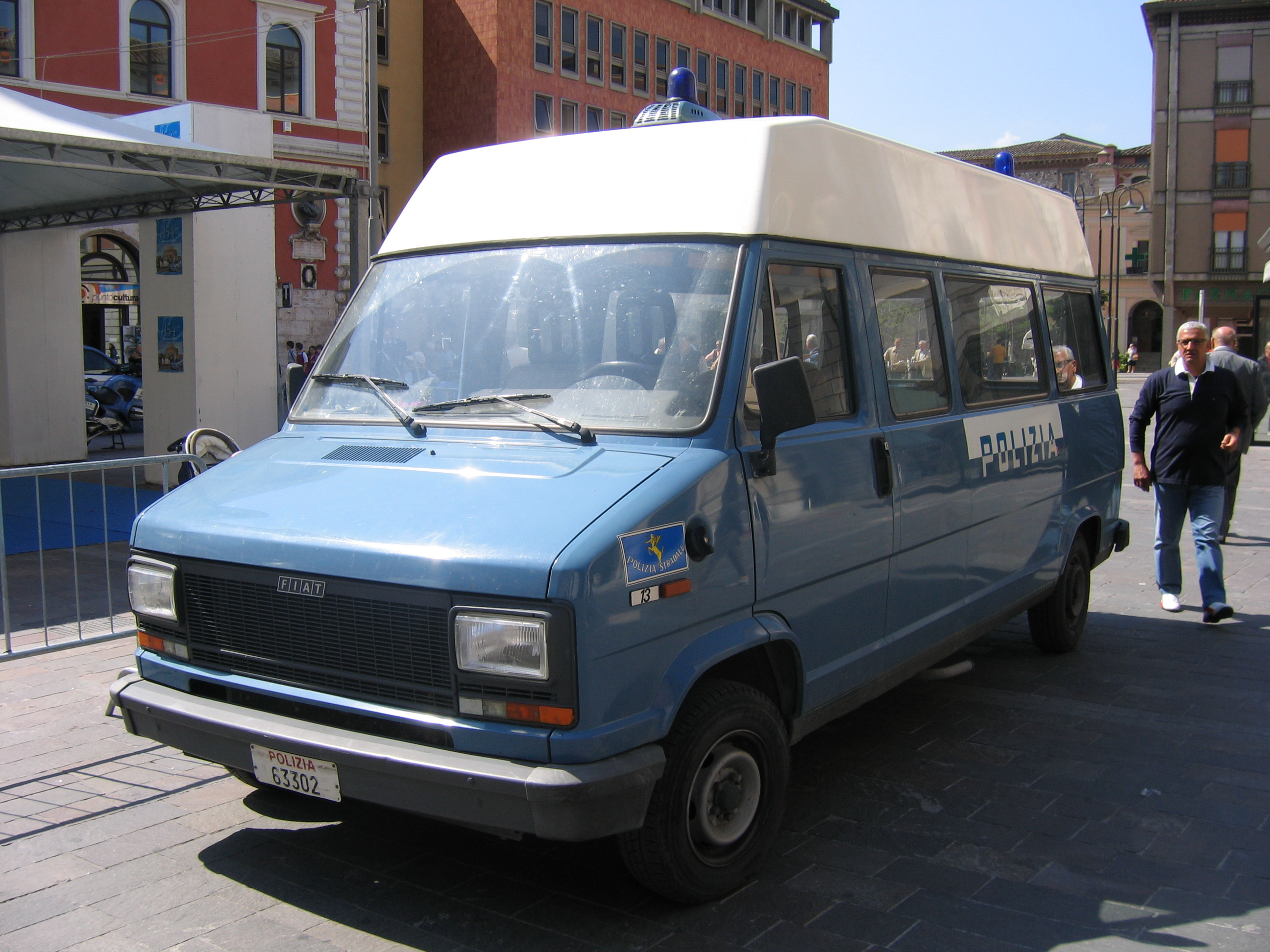 Italian police truck for troop trasport.